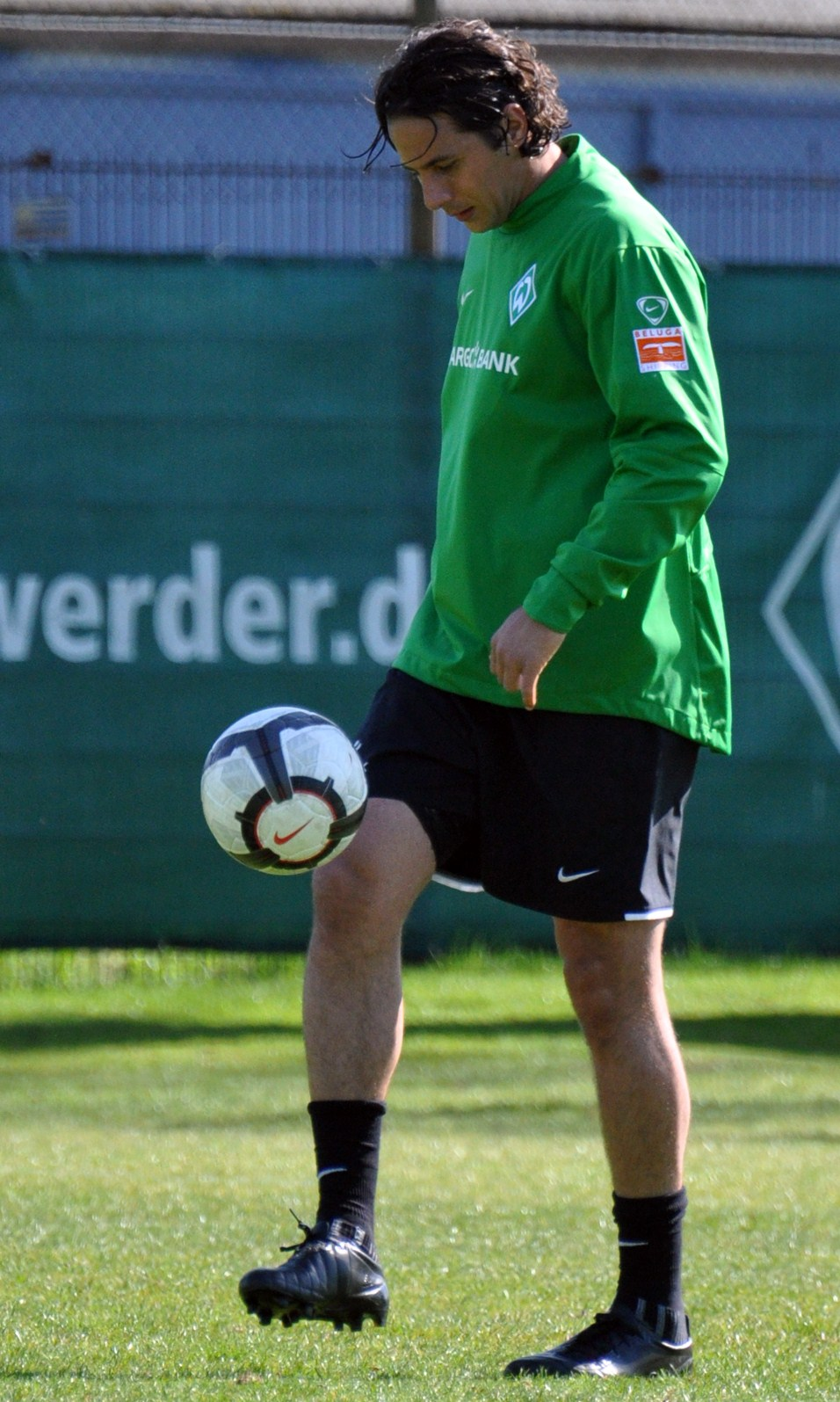 Pizarro at Werder Bremen